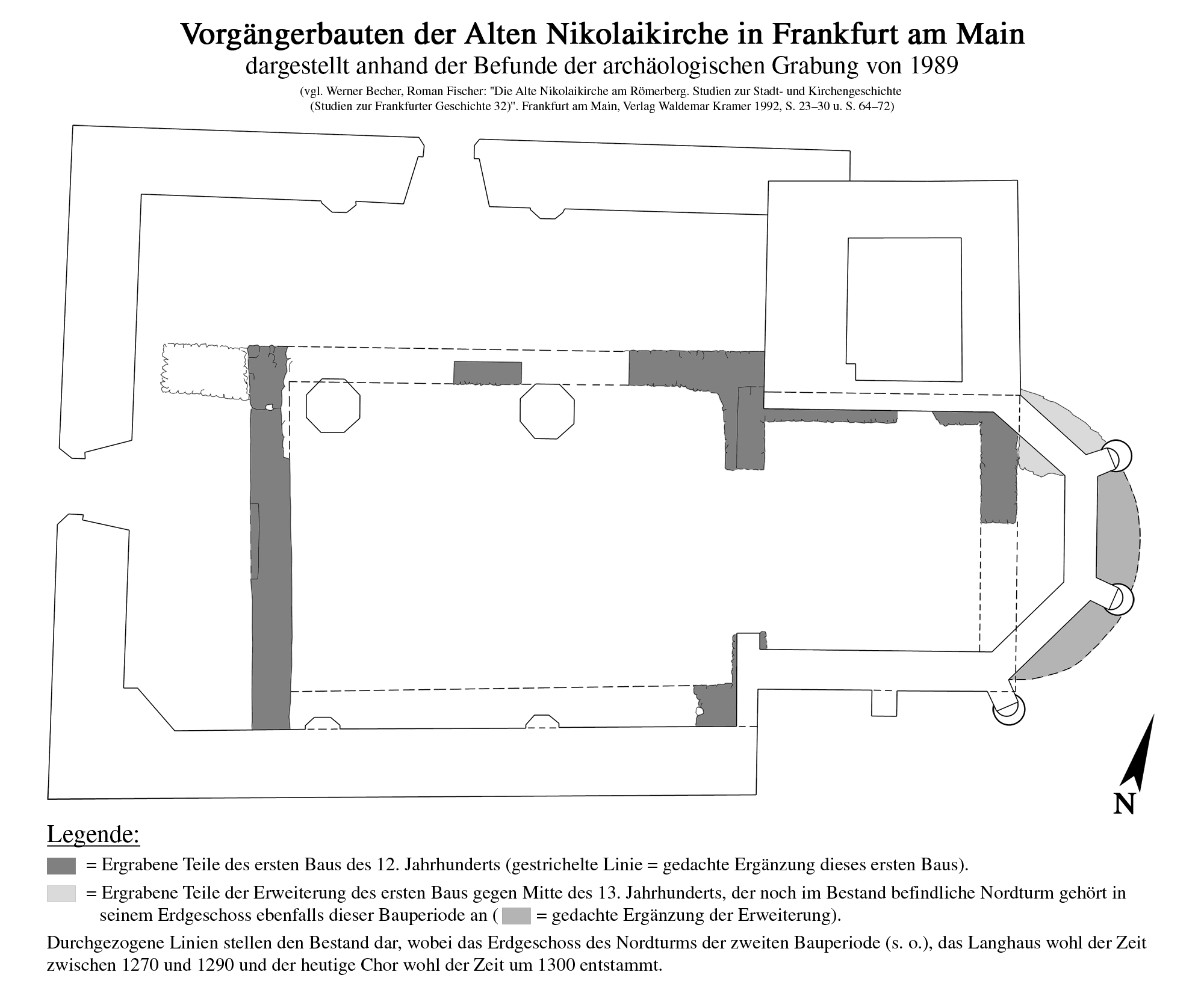 Frankfurt on the Main: Old Saint Nicholas Church, results of the archaeological excavation in 1989